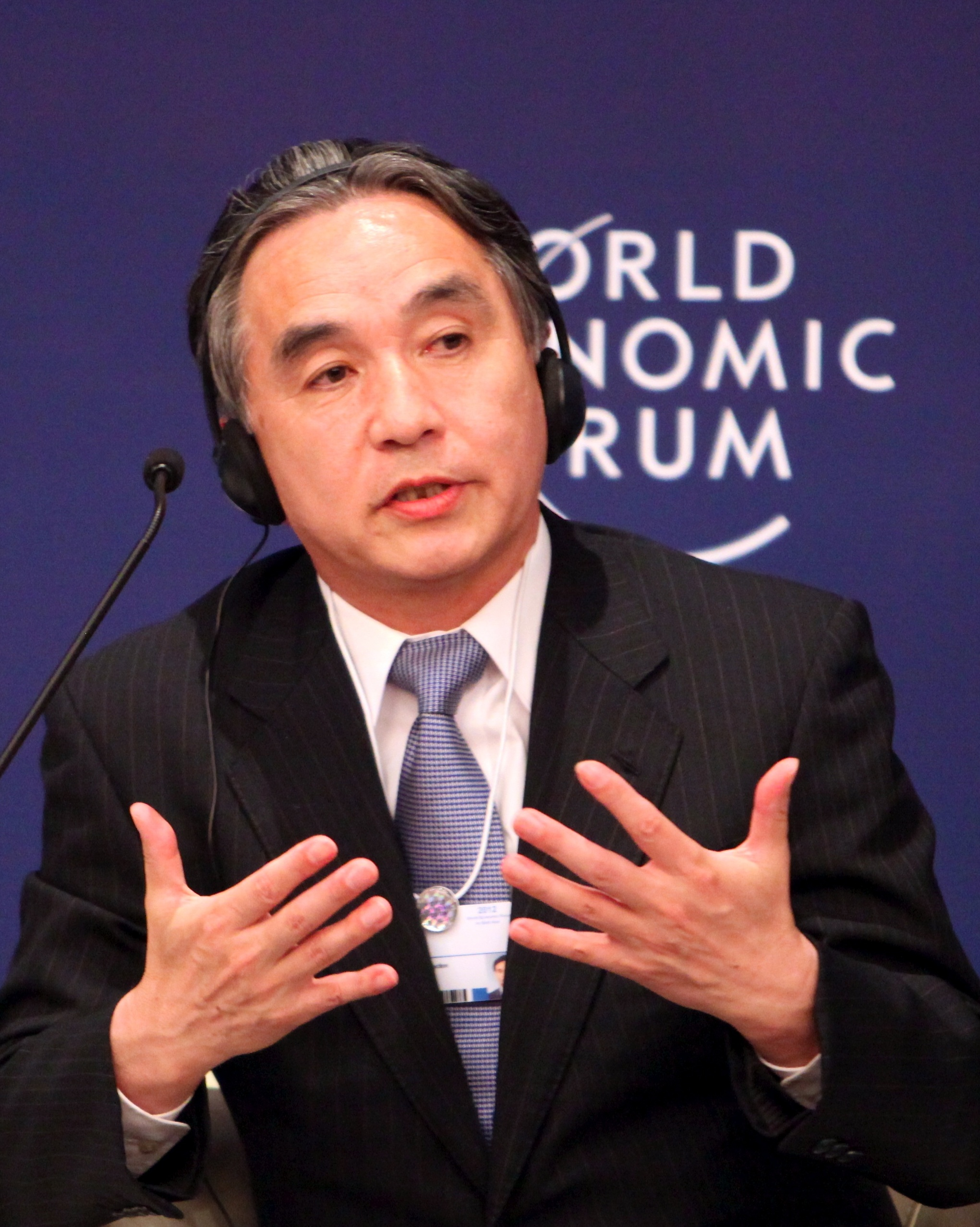 BANGKOK/THAILAND, 31MAY12 - Tatsuo Hirano, Minister for Reconstruction: Minister for Comprehensive Review of Measures in Response to the Great East Japan Earthquake, Reconstruction Agency, Japan, captured during the World Economic Forum on East Asia in Bangkok, Thailand, May 31, 2012. Copyright World Economic Forum ( Photo by Sikarin Thanachaiary